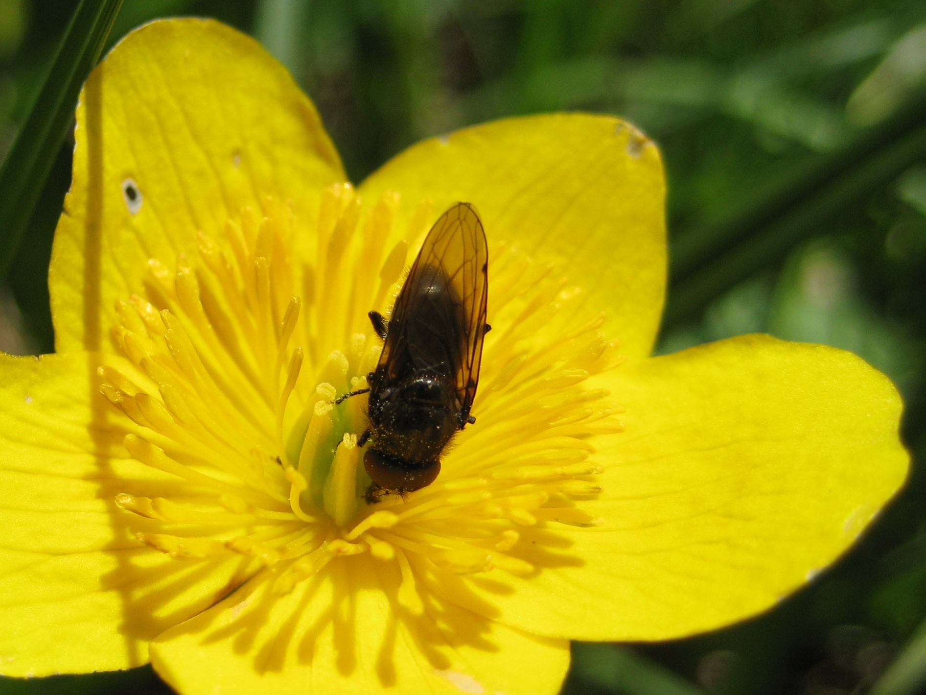 Marsh Marigold, Hoverfly